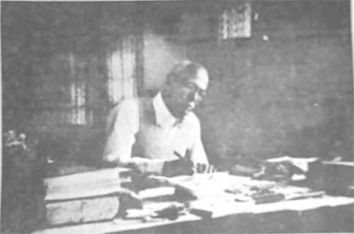 Nakul Chandra Bhuyan is an Assamese historian, playright and shor story writer.